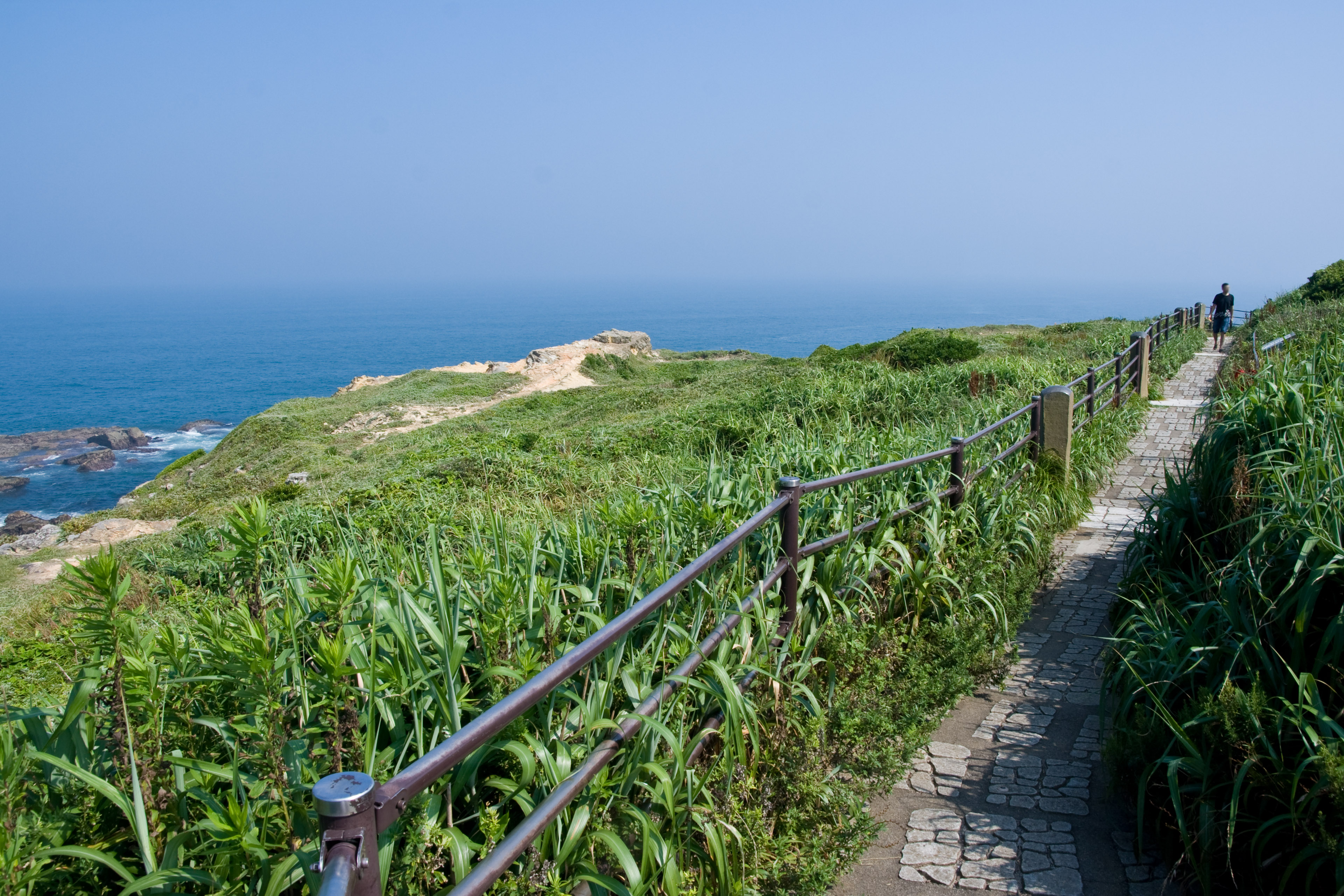 Cape Inubō, Choshi City, Chiba Prefecture, Japan.